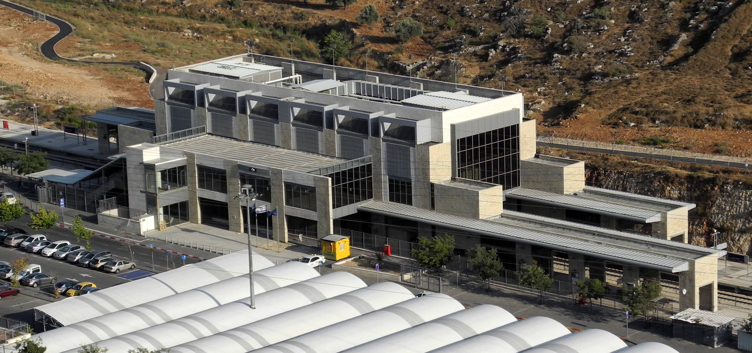 Malha train station in jerusalem